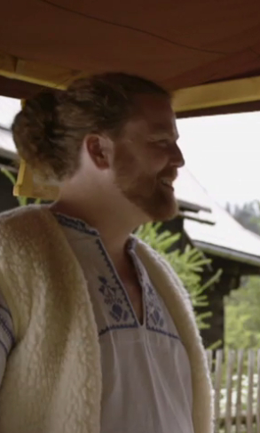 Milan Zupko - Doktor Martin (2015): Epizoda Pražák a Vyhazov